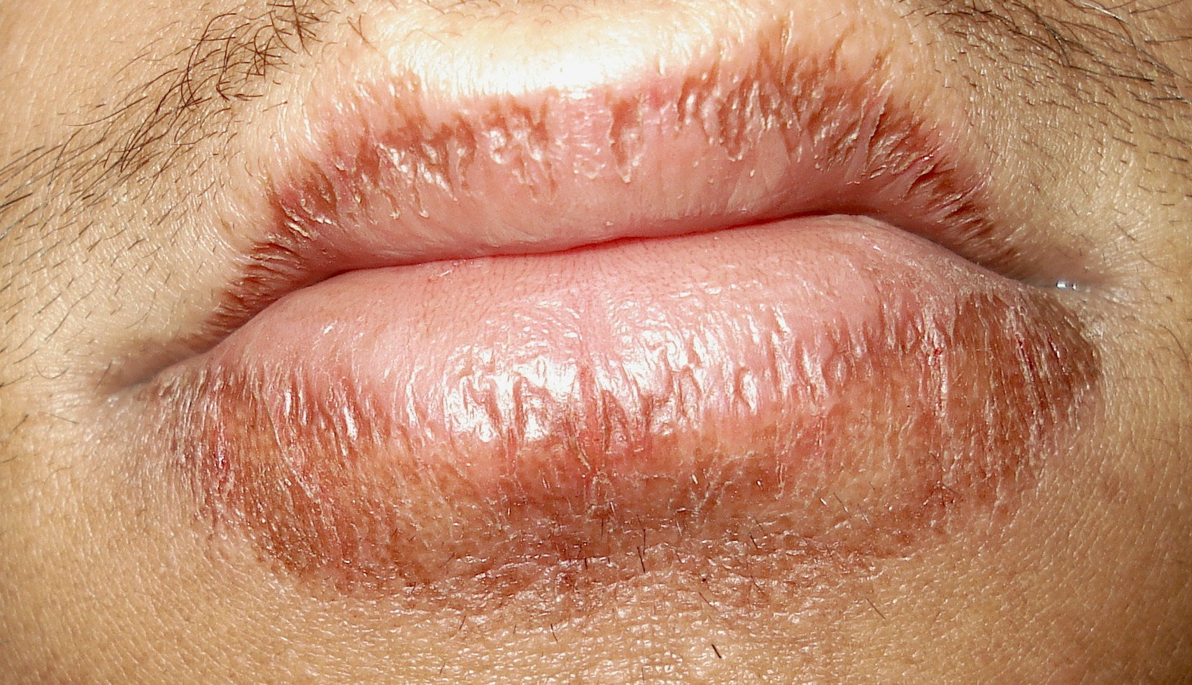 Chapped lips. My own chapped lips resulted from a prolonged exposure to wind during a motorcycle pillion ride.